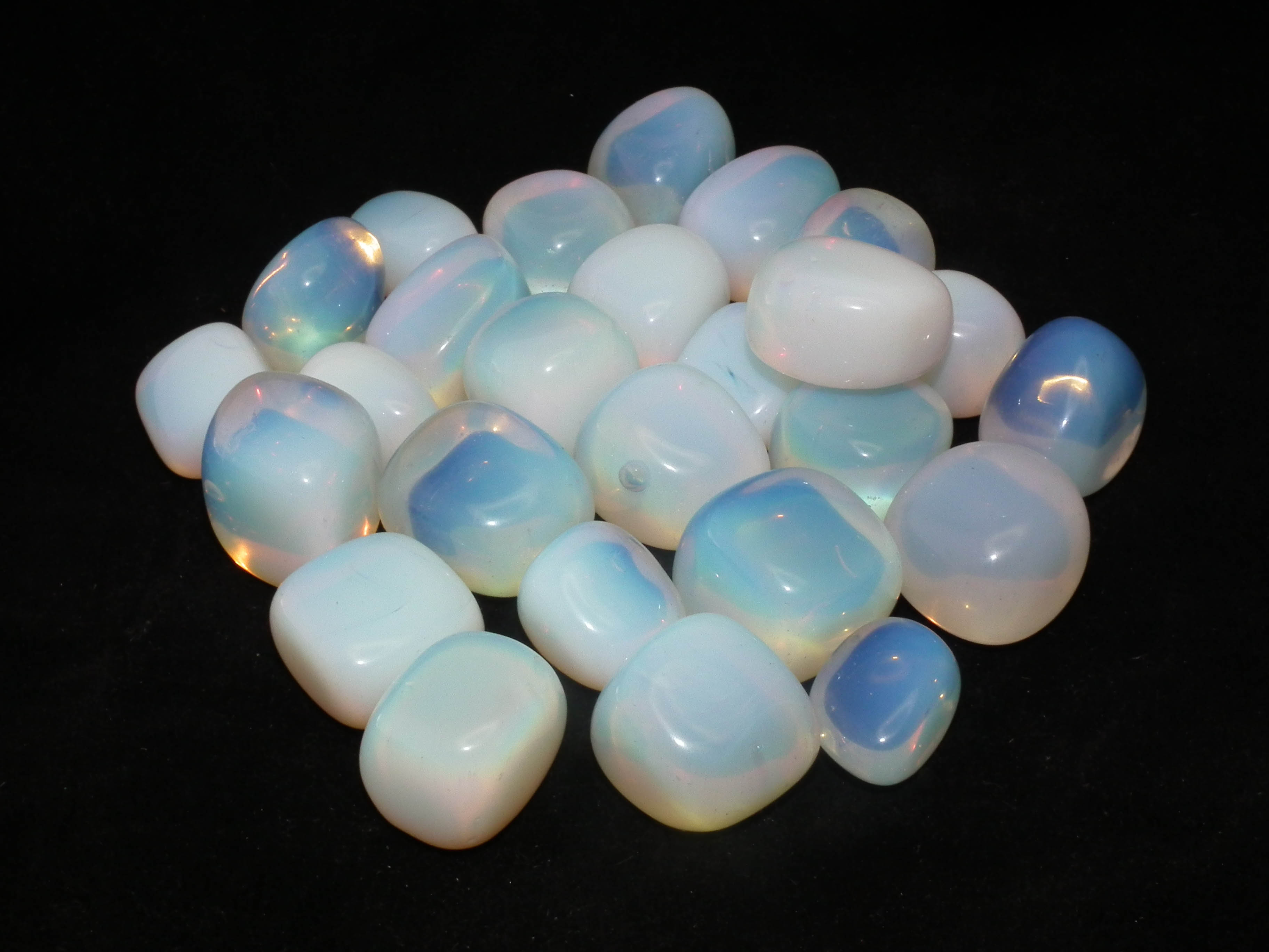 10-20MM pieces of tumble polished Opalite - a synthetic, man made glass.